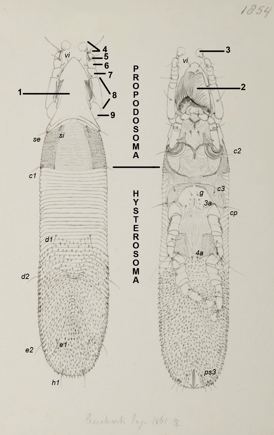 External anatomy of Listrophorus leuckarti female (dorsal and ventral view; gnathosoma unvisible); 1: prescapular shield, 2: attaching flaps, 3: ambulacrum, 4: pretarsus, 5: tarsus, 6: tibia, 7: genu, 8: femur, 9: trochanter.